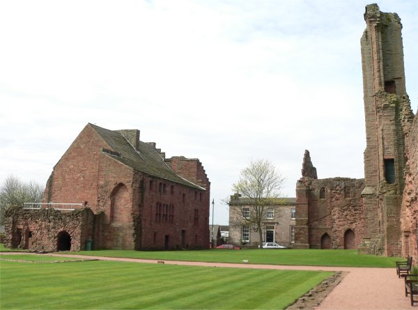 The Abbot's House of Arbroath Abbey, Scotland